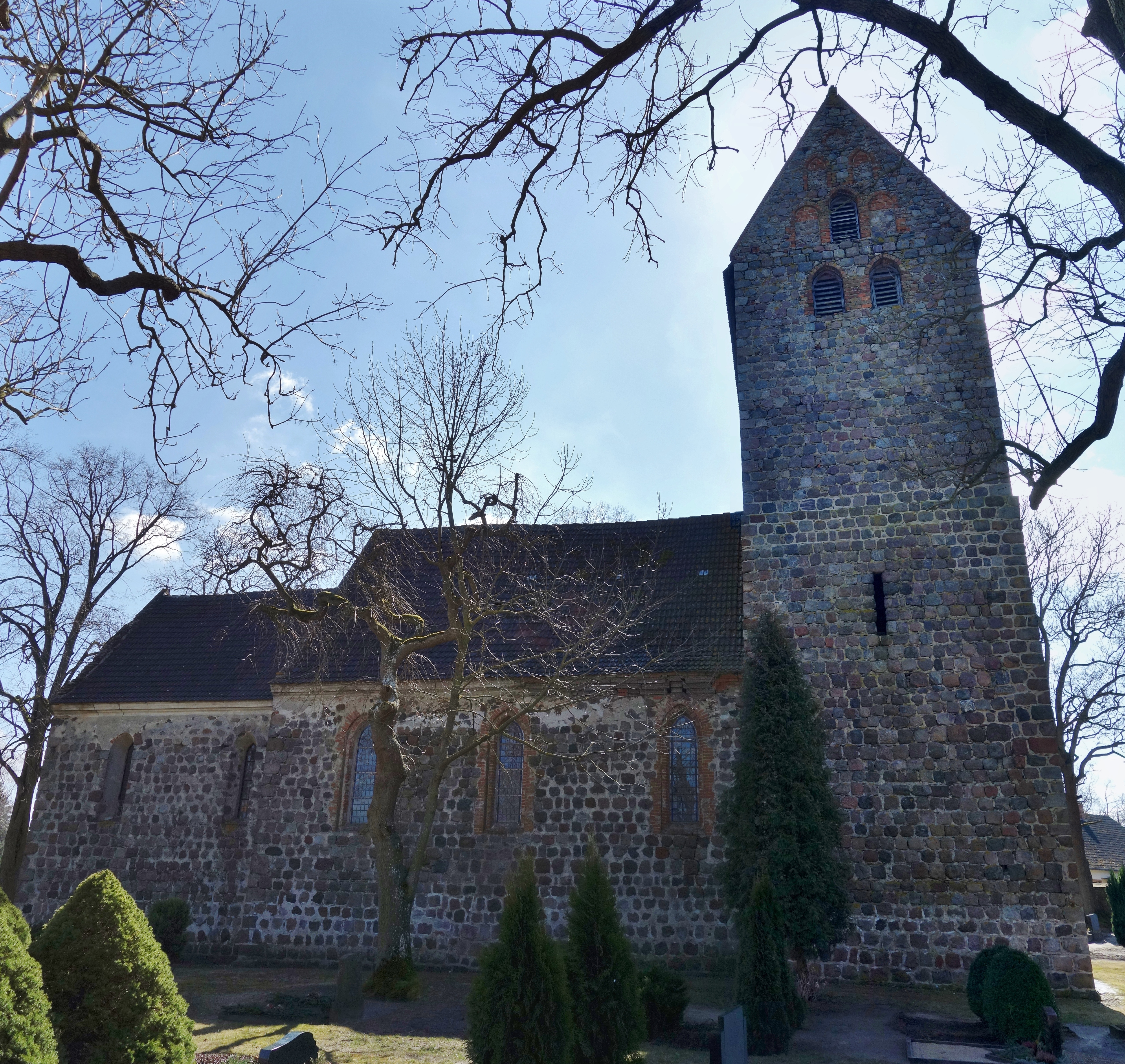 Northern view of the church in Falkenwalde , Uckerfelde municipality , Uckermark district, Brandenburg state, Germany